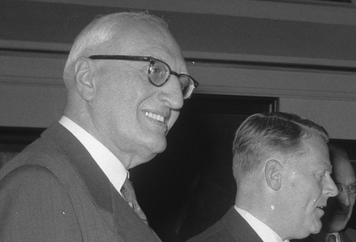 Afscheid Prof. F. de Vries Amsterdam